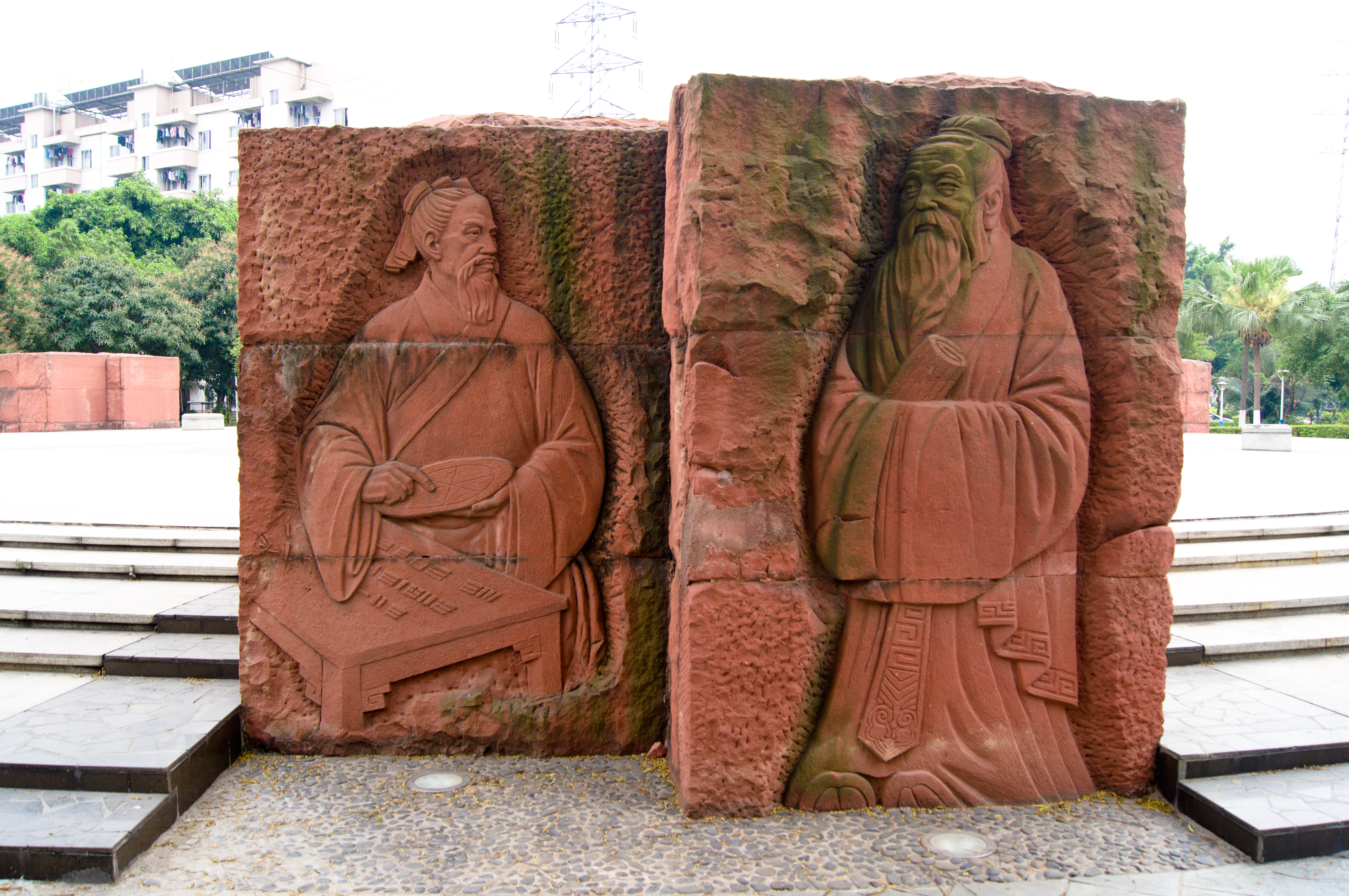 Cultural Zone in Foshan University (Zu Chongzhi and Confucius).